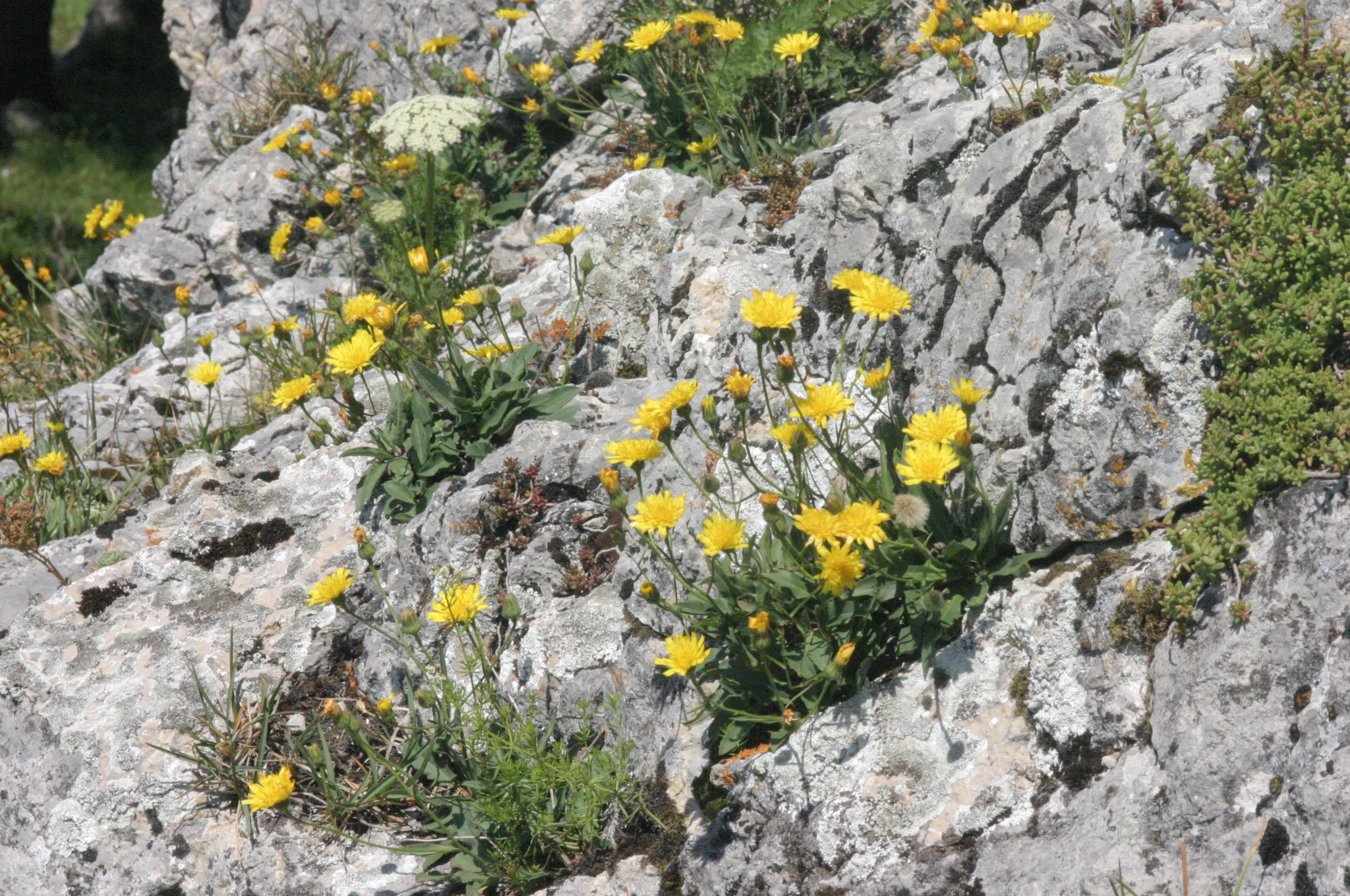 Hieracium humile